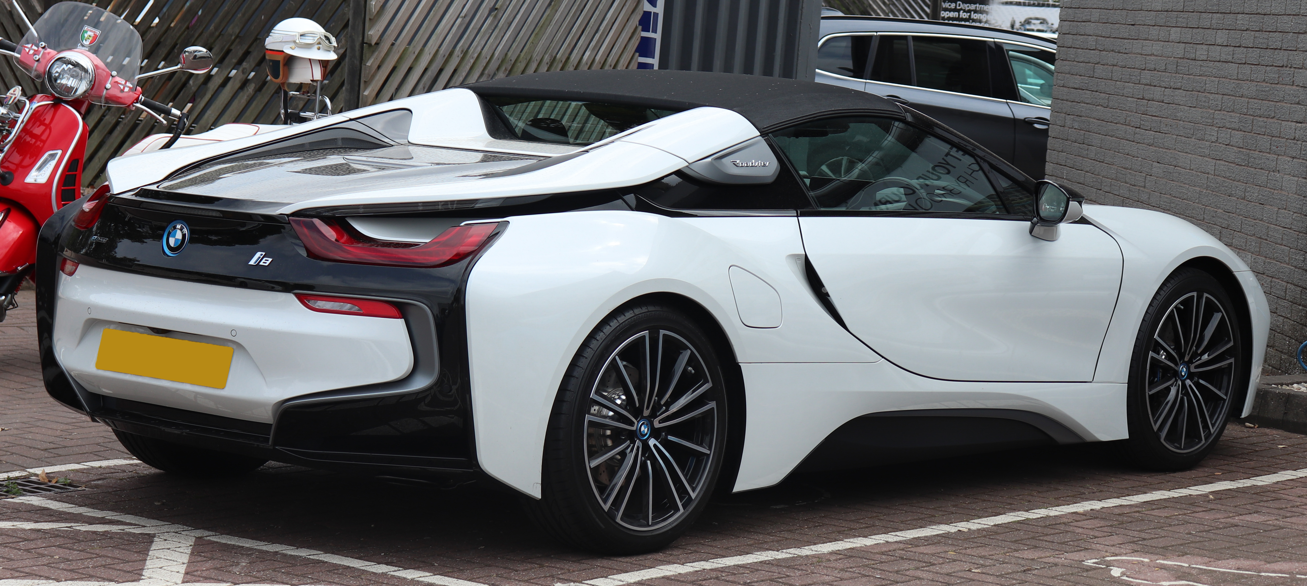 2018 BMW i8 Roadster Taken in Leamington Spa